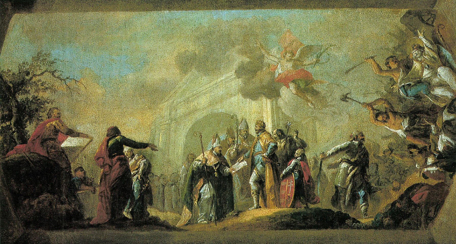 Sketch for the fresco of the church of Kiskomárom